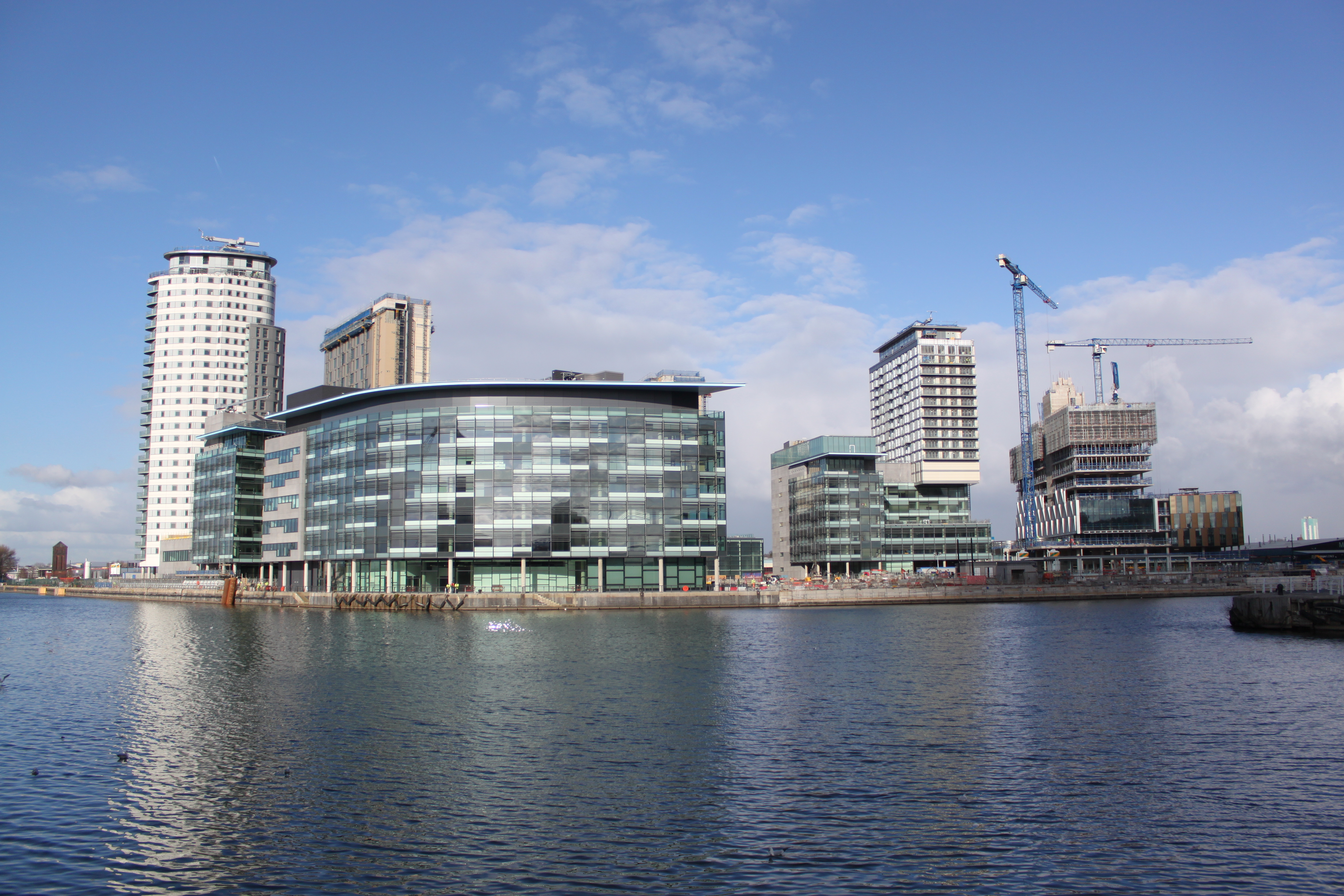 MediaCity:UK under construction in Salford Quays, Greater Manchester